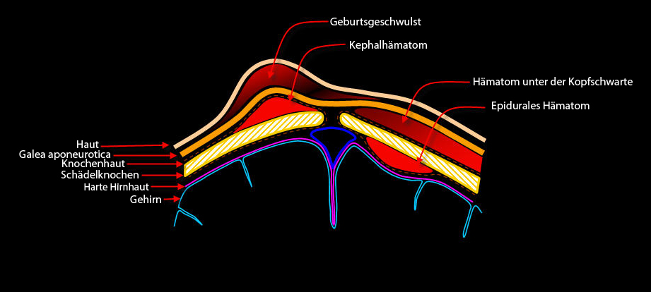 Newborn Scalp Hematomata